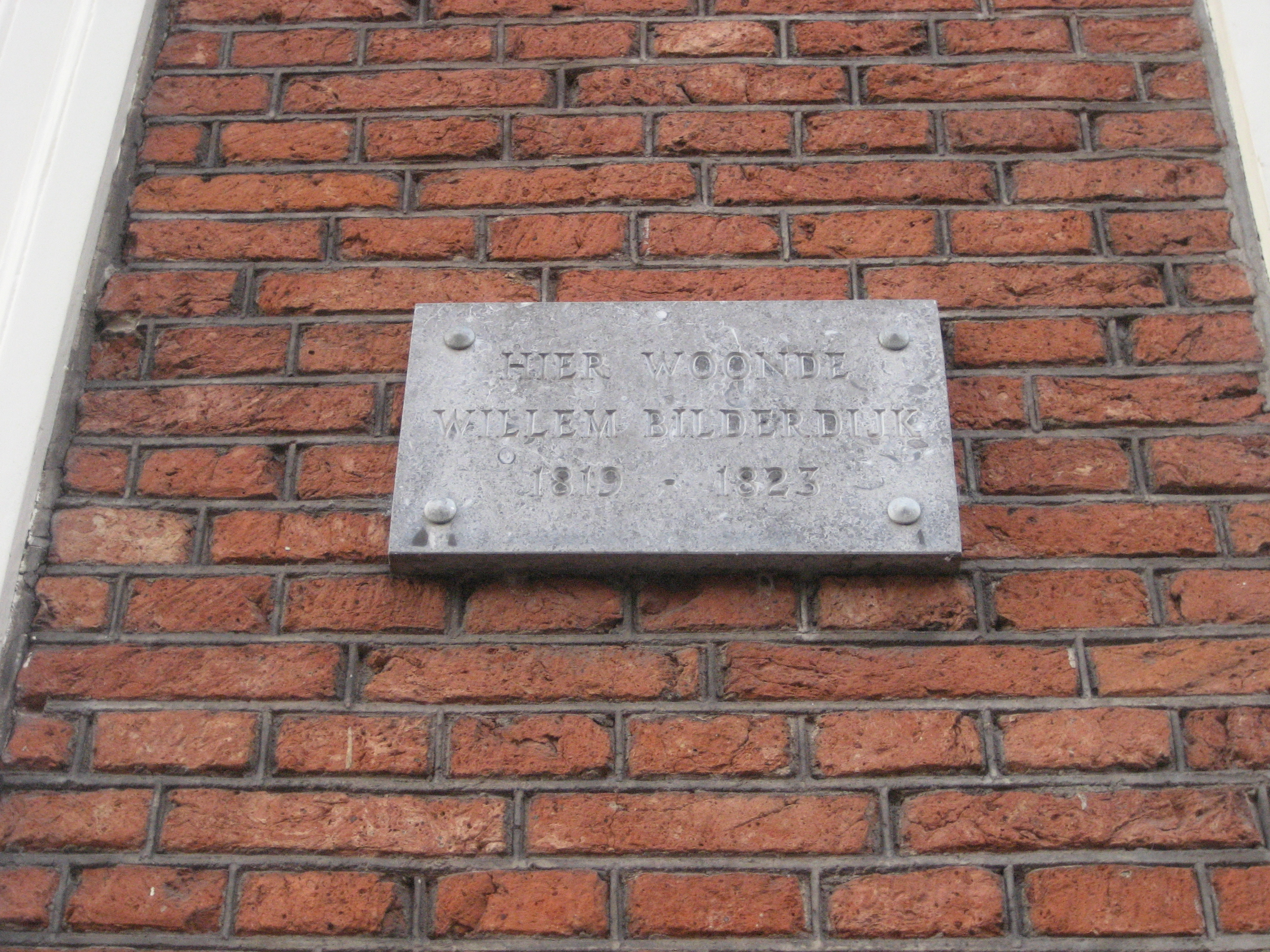 Plaque, Rapenburg 37, Leiden. "Hier woonde Willem Bilderdijk, 1819-1823". (Here lived Willem Bilderdijk, 1819-1823)